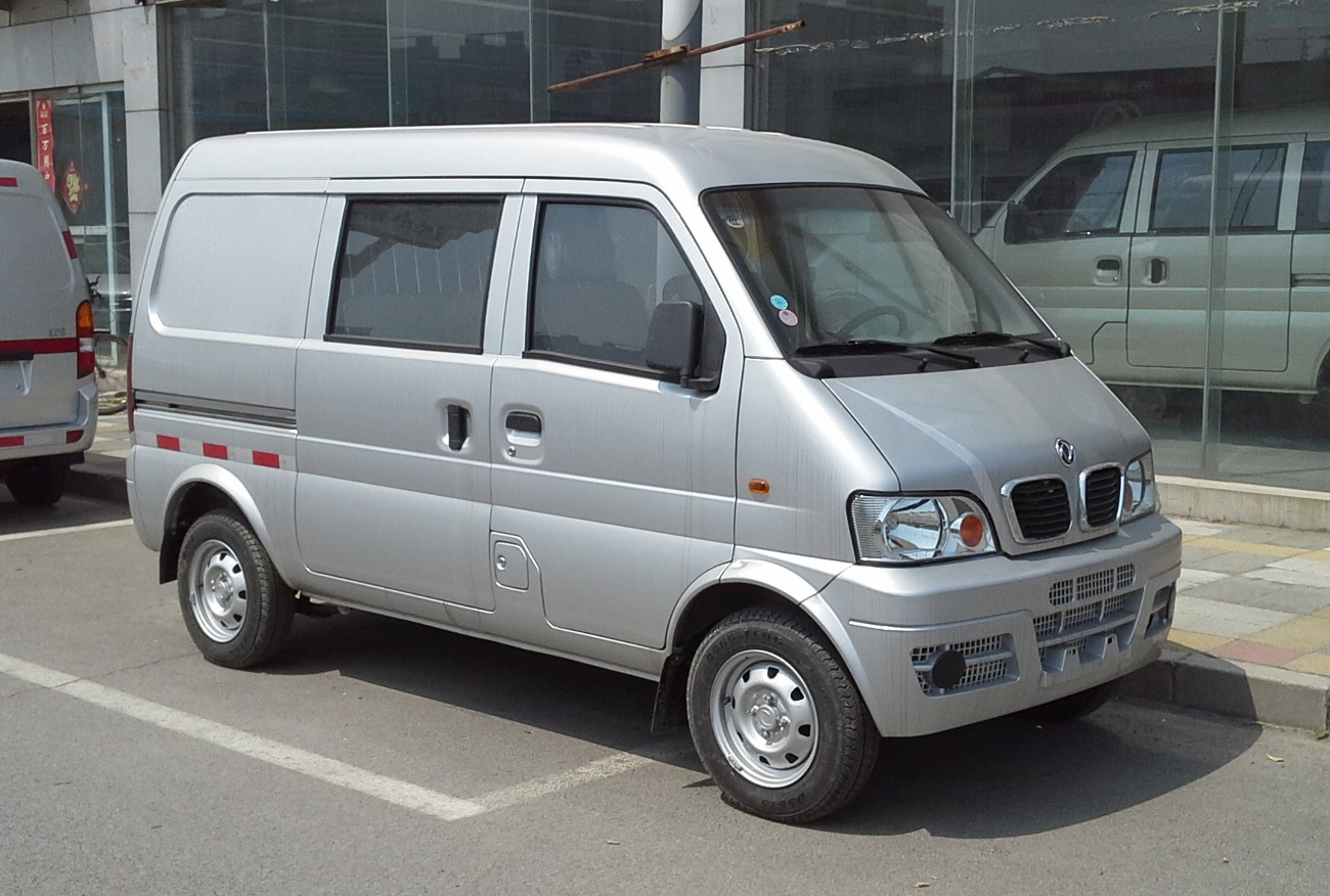 Dongfeng Sokon K05 photographed in Beijing, China.